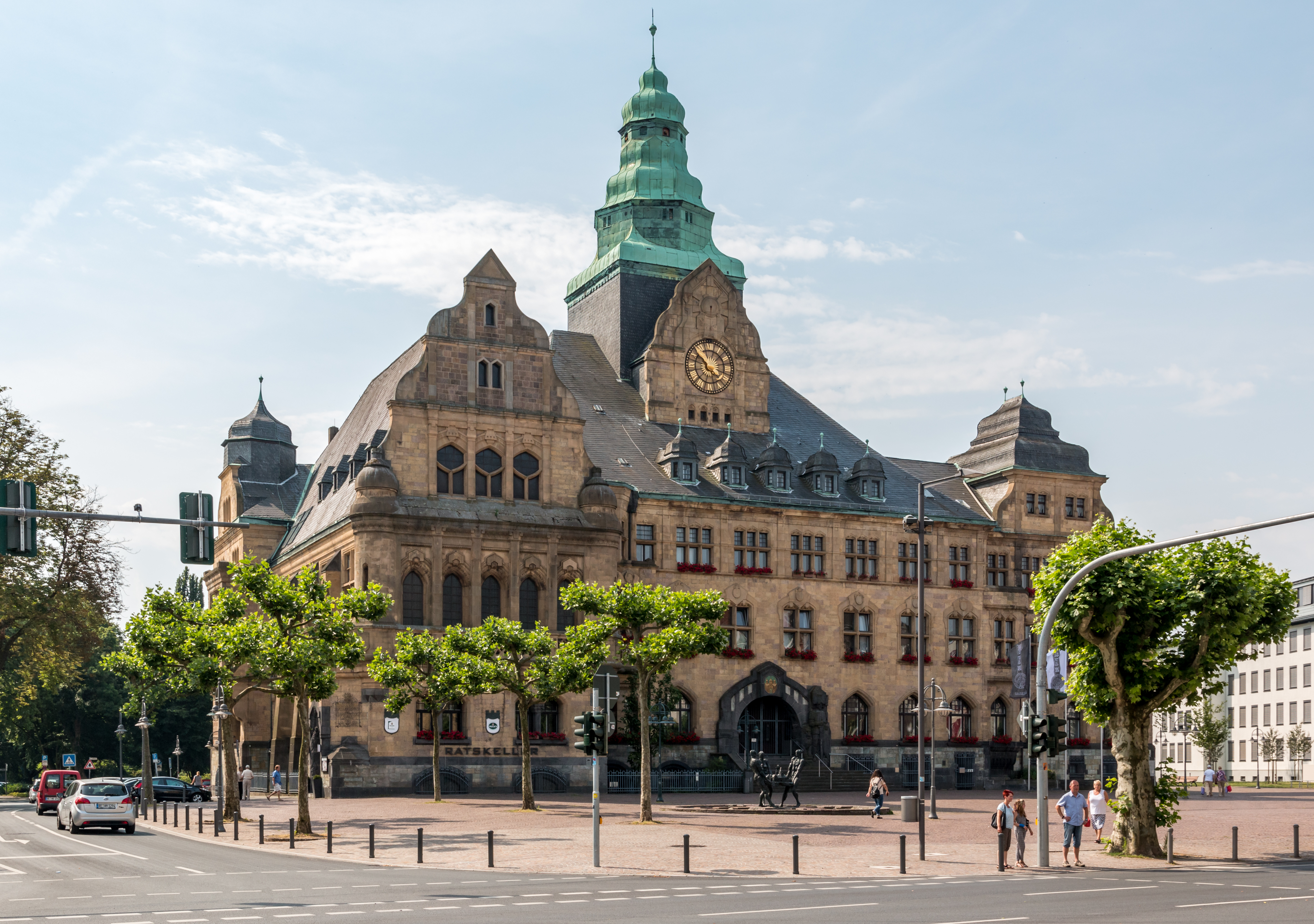 Town hall, Recklinghausen, North Rhine-Westphalia, Germany This image shows a heritage building in Germany, located in the North Rhine-Westphalian city Recklinghausen (no. 43).